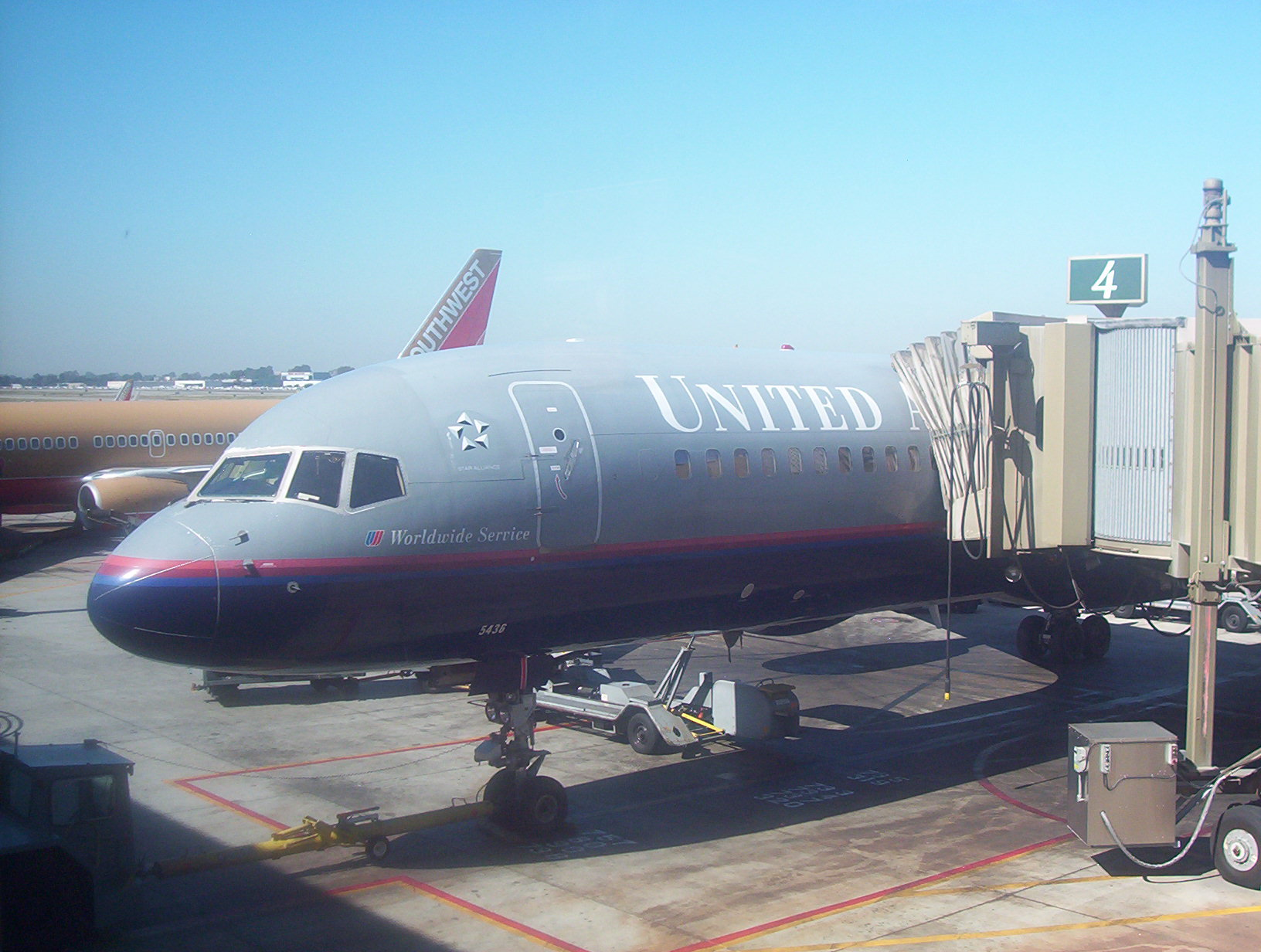 flight UA1222 at John Wayne Airport